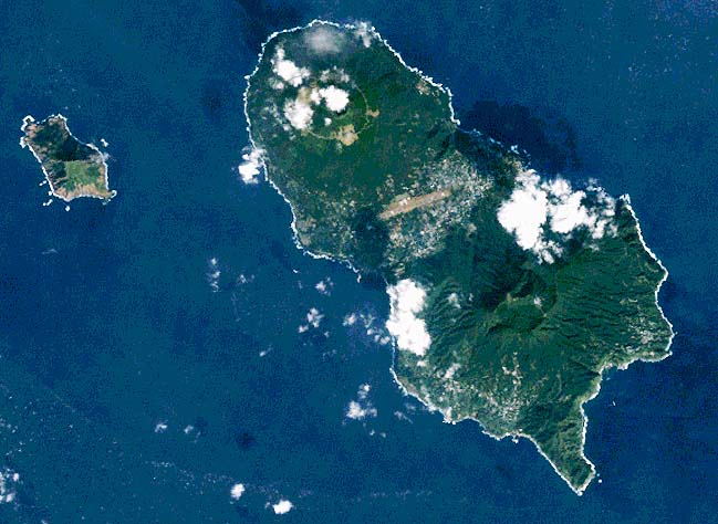 Landsat picture of Hachijojima Island, Izu Islands, Japan.